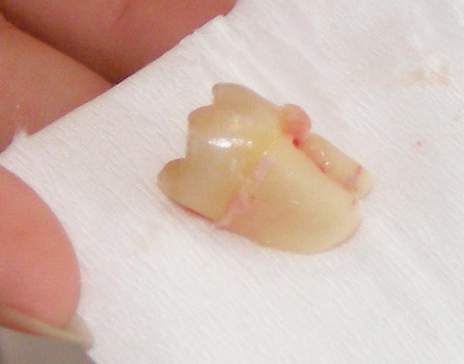 Extracted 3rd Molar that was horizontally impacted. Storkk's tooth.